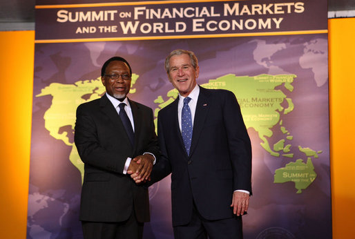 President George W. Bush welcomes South Africa President Kgalema Motlanthe to the Summit on Financial Markets and the World Economy Saturday, Nov. 15, 2008 in Washington D.C.